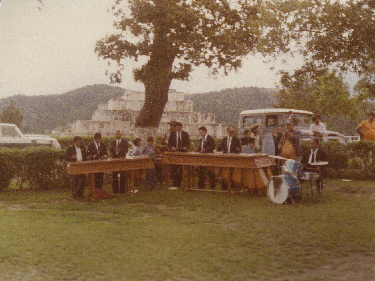 Marimba band at Maya ruins of Zaculeu, Guatemala. Photo by Infrogmation, 7 June, 1979